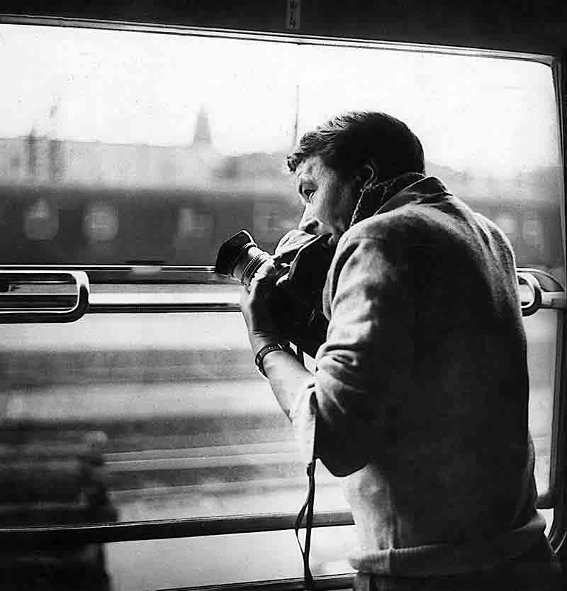 German photographer Peter Bock-Schroeder’s story reads a bit like a movie: larger-than-life with plenty of plot twists.